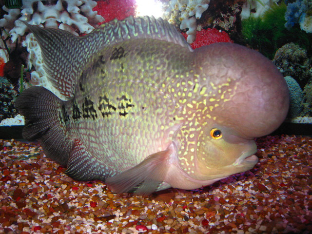 ILC Kamfa